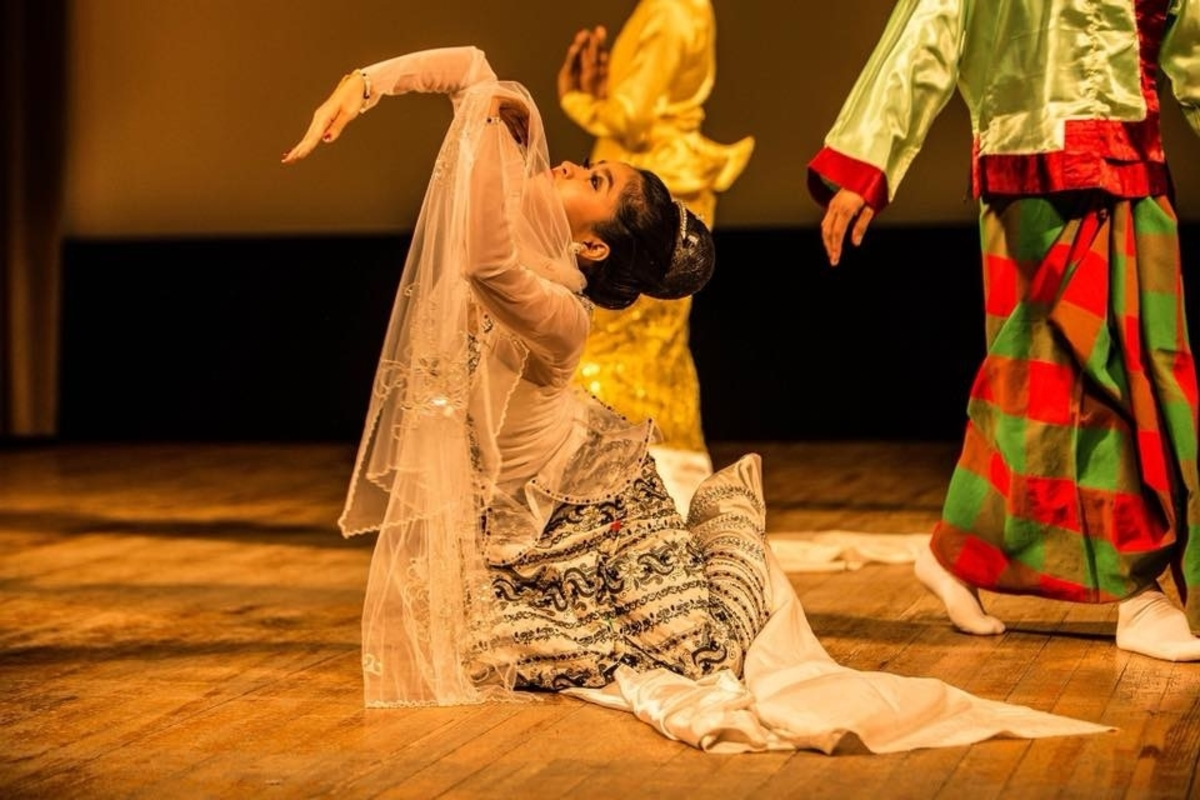 Win Tha Pyay Tun is a Burmese traditional dancer and actress.